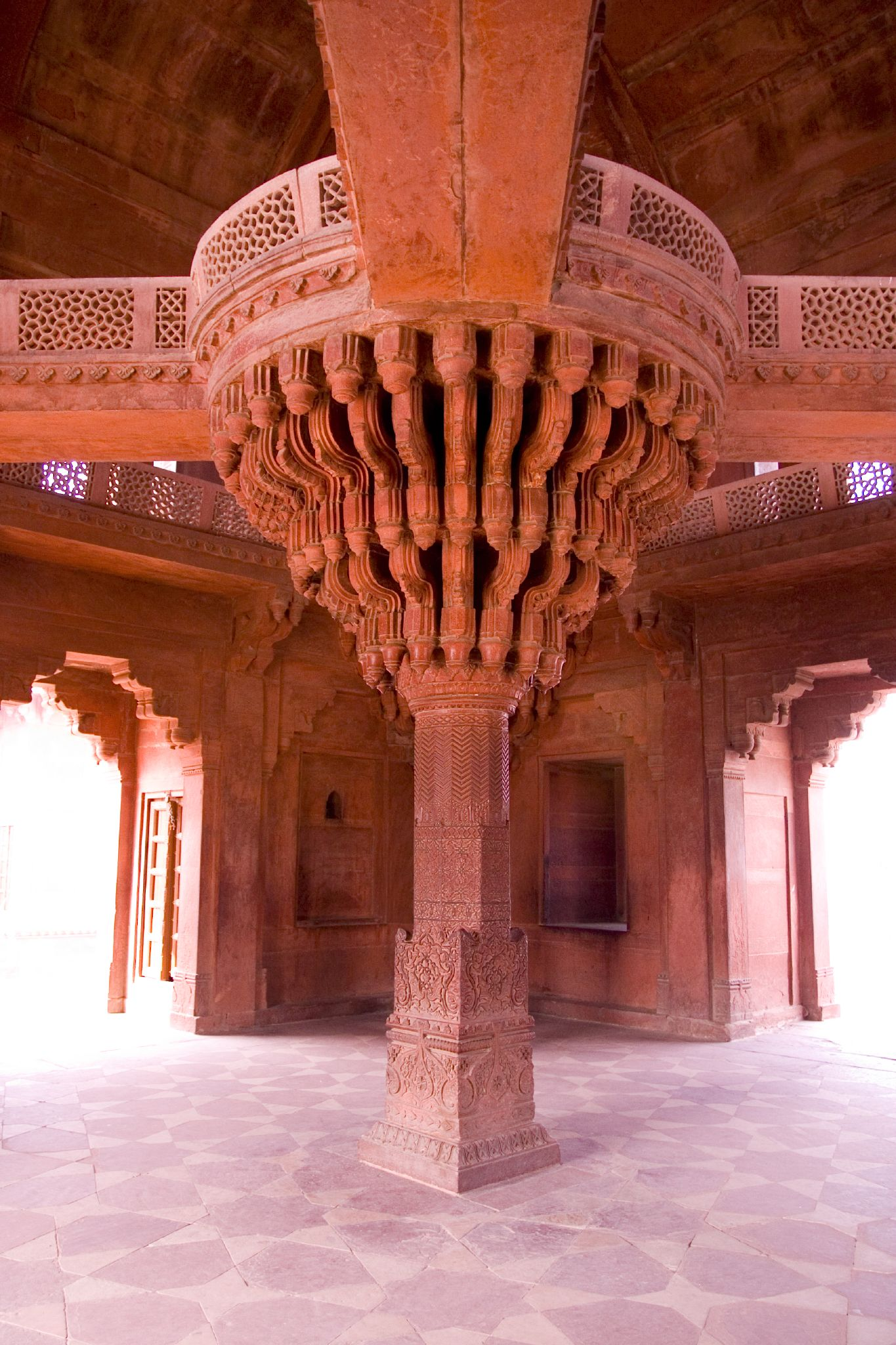 interior of the Diwan-i-Khas (hall of private audience) at Fatehpur Sikri (Uttar Pradesh, India) The central pillar embodies the diversity and religious tolerance of the Mughal empire under Akbar. Muslim, Hindu, Buddhist and Christian iconographic elements are integrated together in the column.